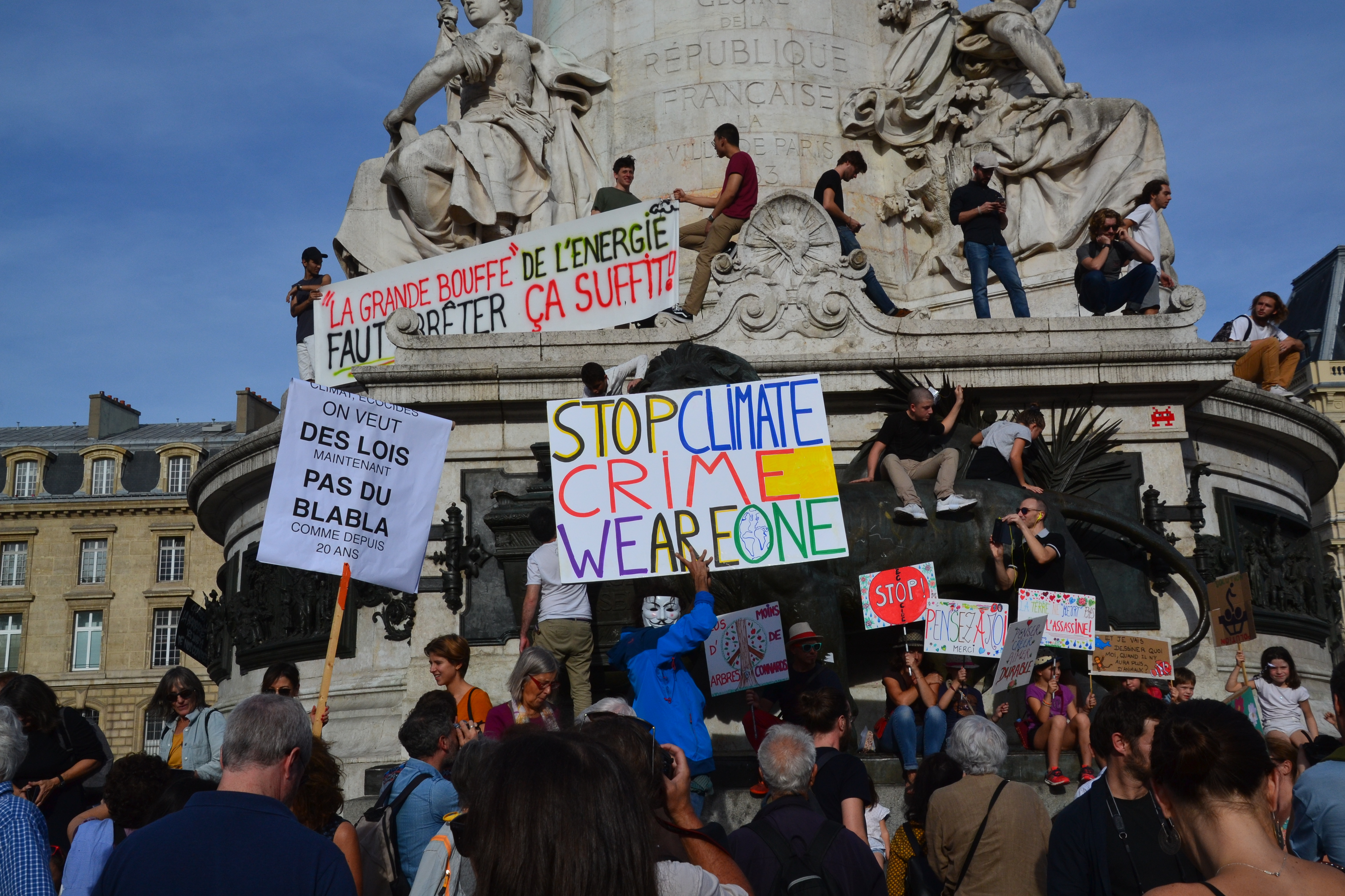 Marche pour le climat du 13 octobre, Paris (13 Oct 2018) Tens of thousands of demonstrators marched through central Paris (and other french towns) on Saturday calling on the French government and the international community to do more to tackle climate change.